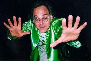 Mike Jittlov in 1996, photo by John E. Hudgens